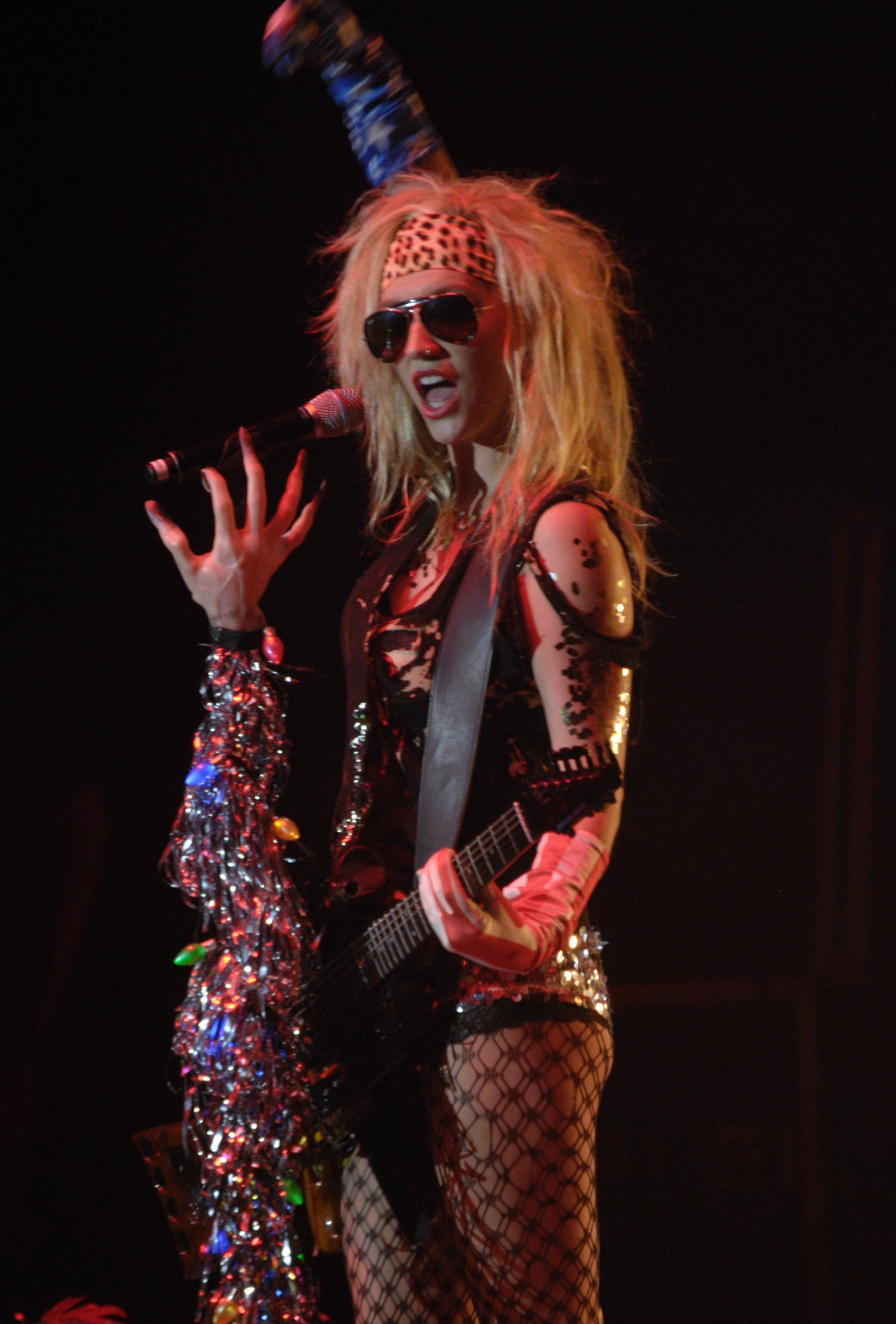 Kesha seen live in concert